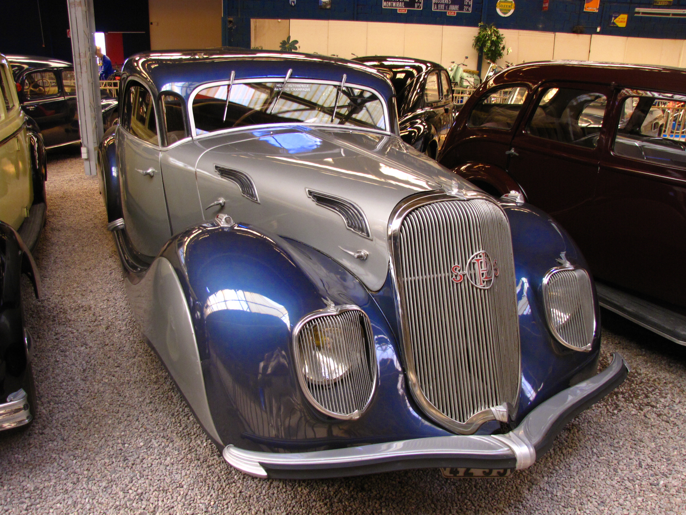 The French luxury car Panhard & Levassor 2,5 litre Dynamic 130 (series X76) is the companion to the stronger Dynamic 140 (series X77 and X81), also with factory streamlined styling, "Panoramique" windshield, a six cylinder sleeve-valve engine, independent front suspension and rear wheel drive.